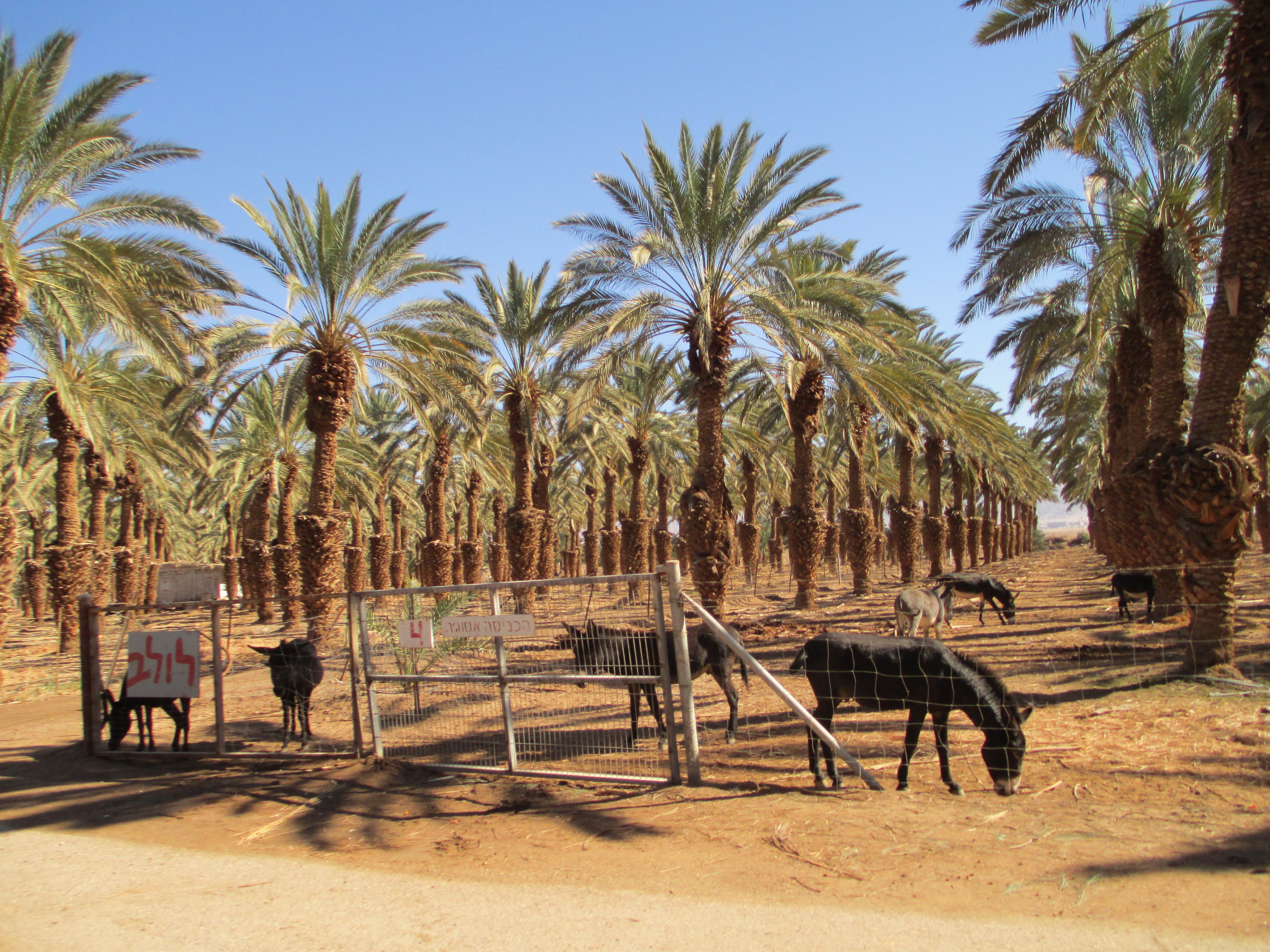 Date palm trees in Kibbutz Eilot